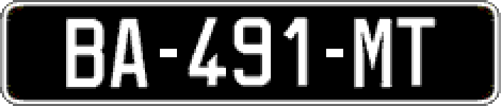 License plate from France for historical vehicles since April 2009